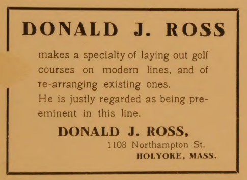 An advertisement for Donald Ross's service as a golf architect, during his time residing in Holyoke through the patronage of Mr. Joseph Lewis Wyckoff.